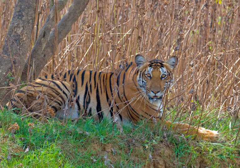 Tiger on the banks of the Kabini river